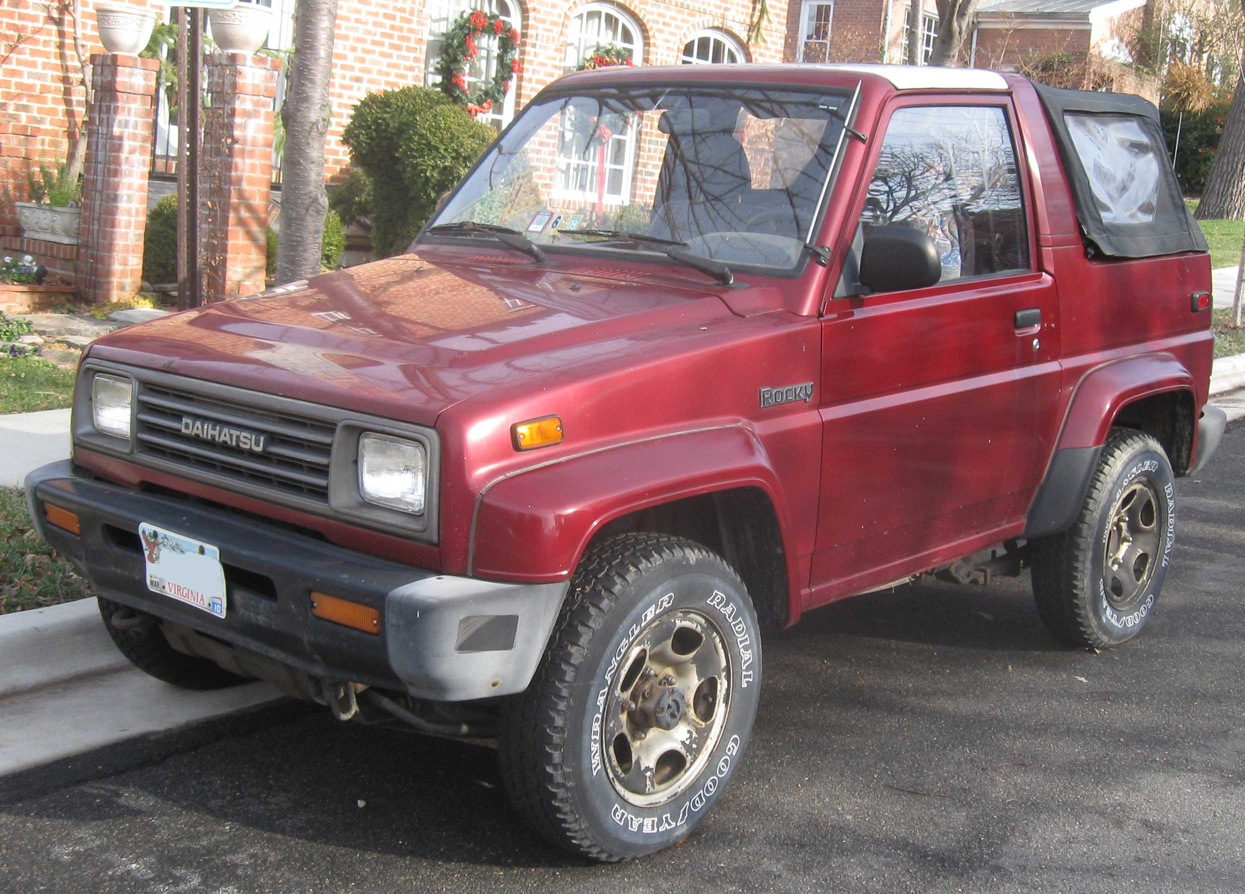 Daihatsu Rocky photographed in Alexandria, Virginia, USA.